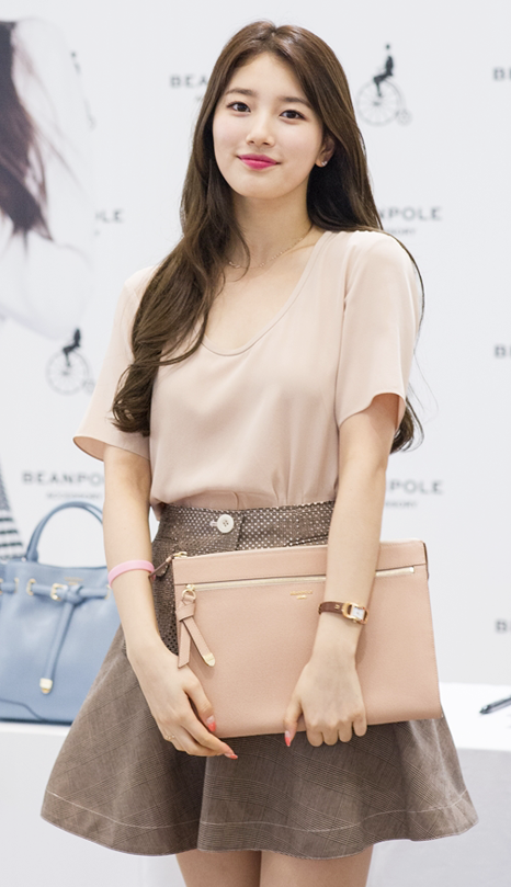 Suzy at a fan meeting for Bean Pole, 15 July 2014